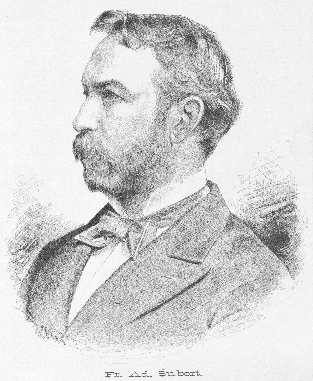 Portrait of František Adolf Šubert (also written as Schubert), Czech writer and playwright